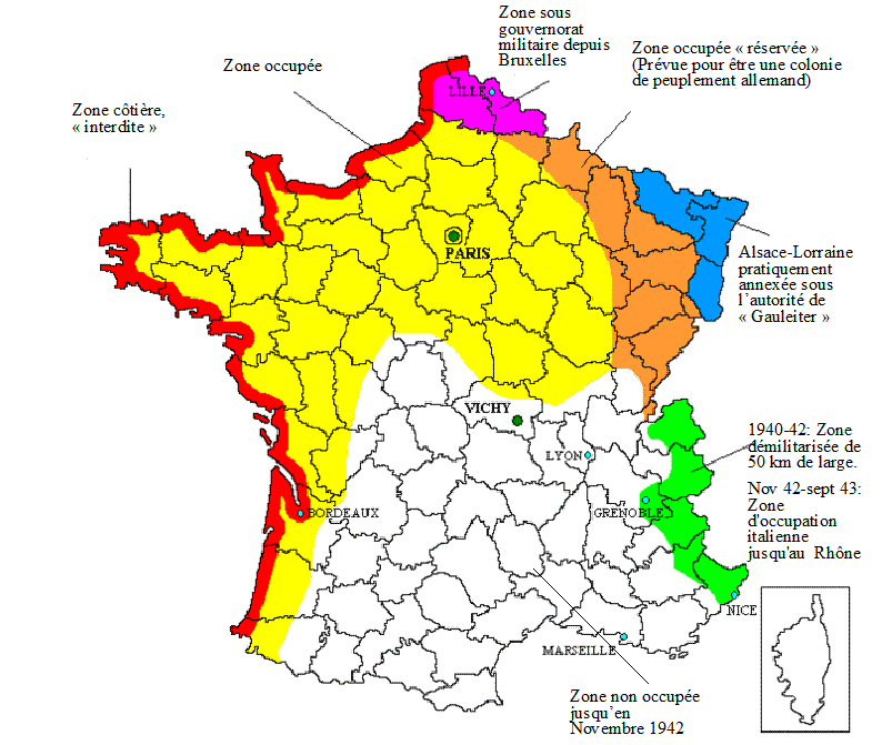 Map France under German occupation (1940-44)